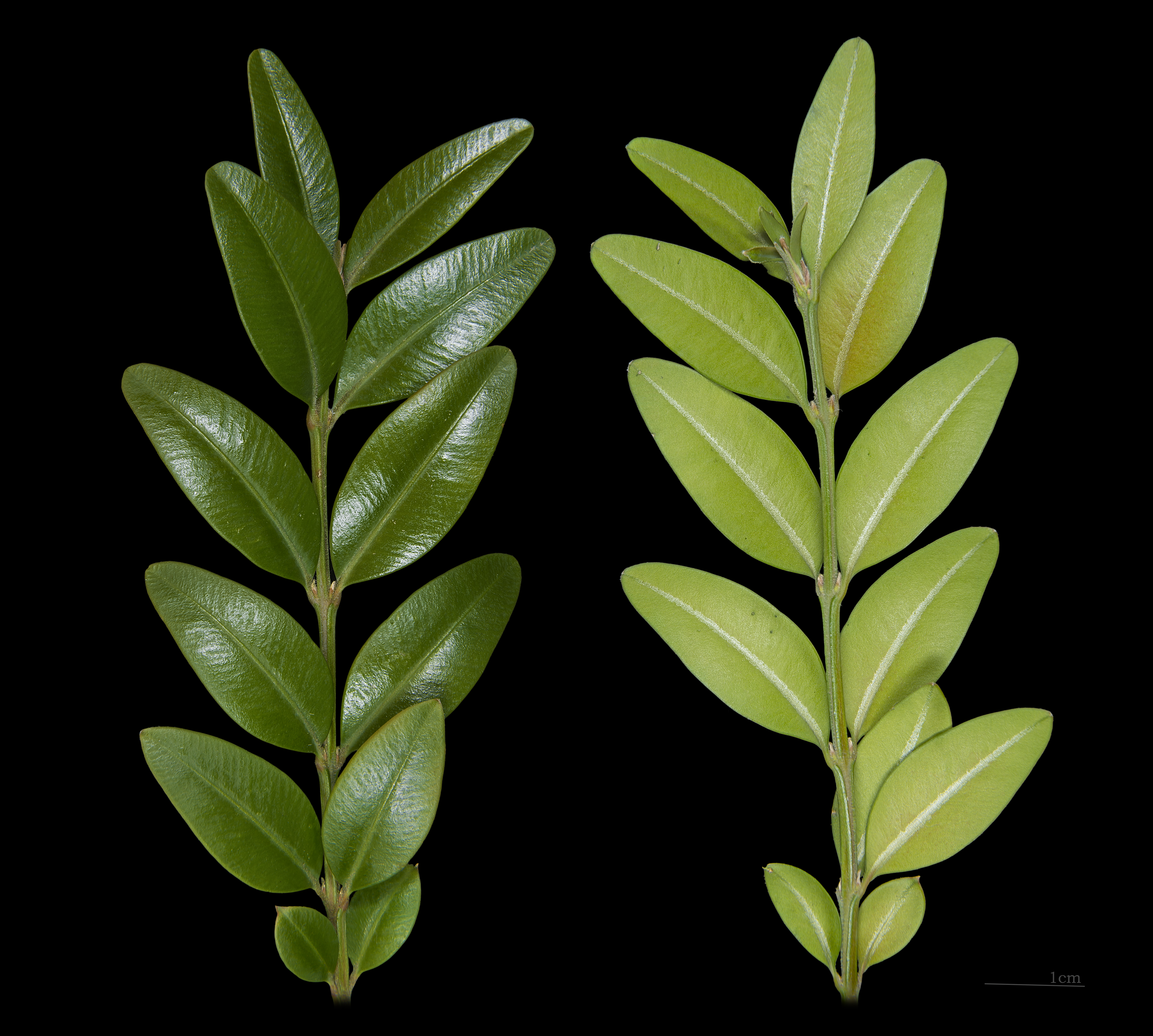 Common box, the two sides of the same branch.